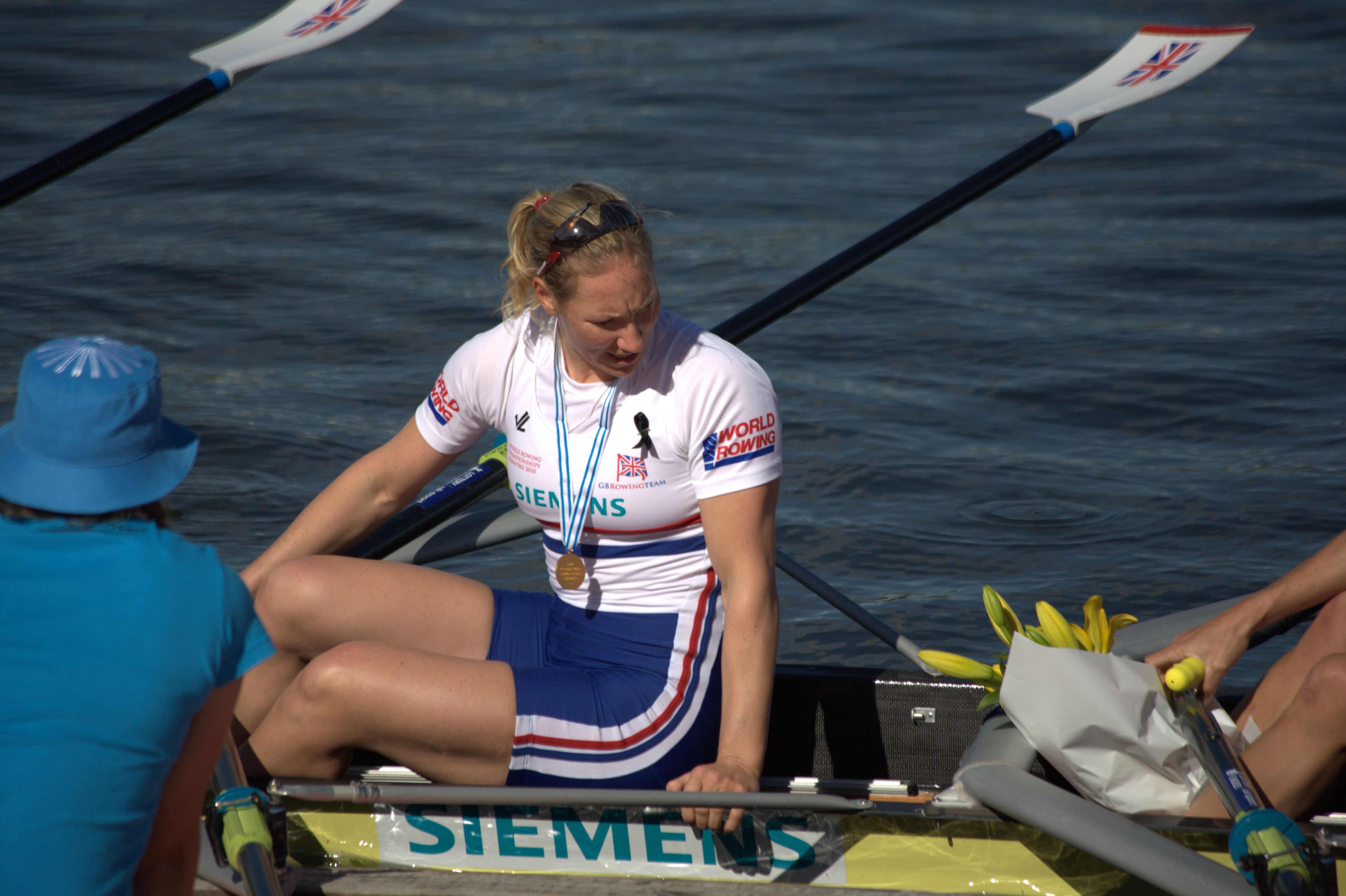 Debbie Flood 2010 World Rowing Championships.